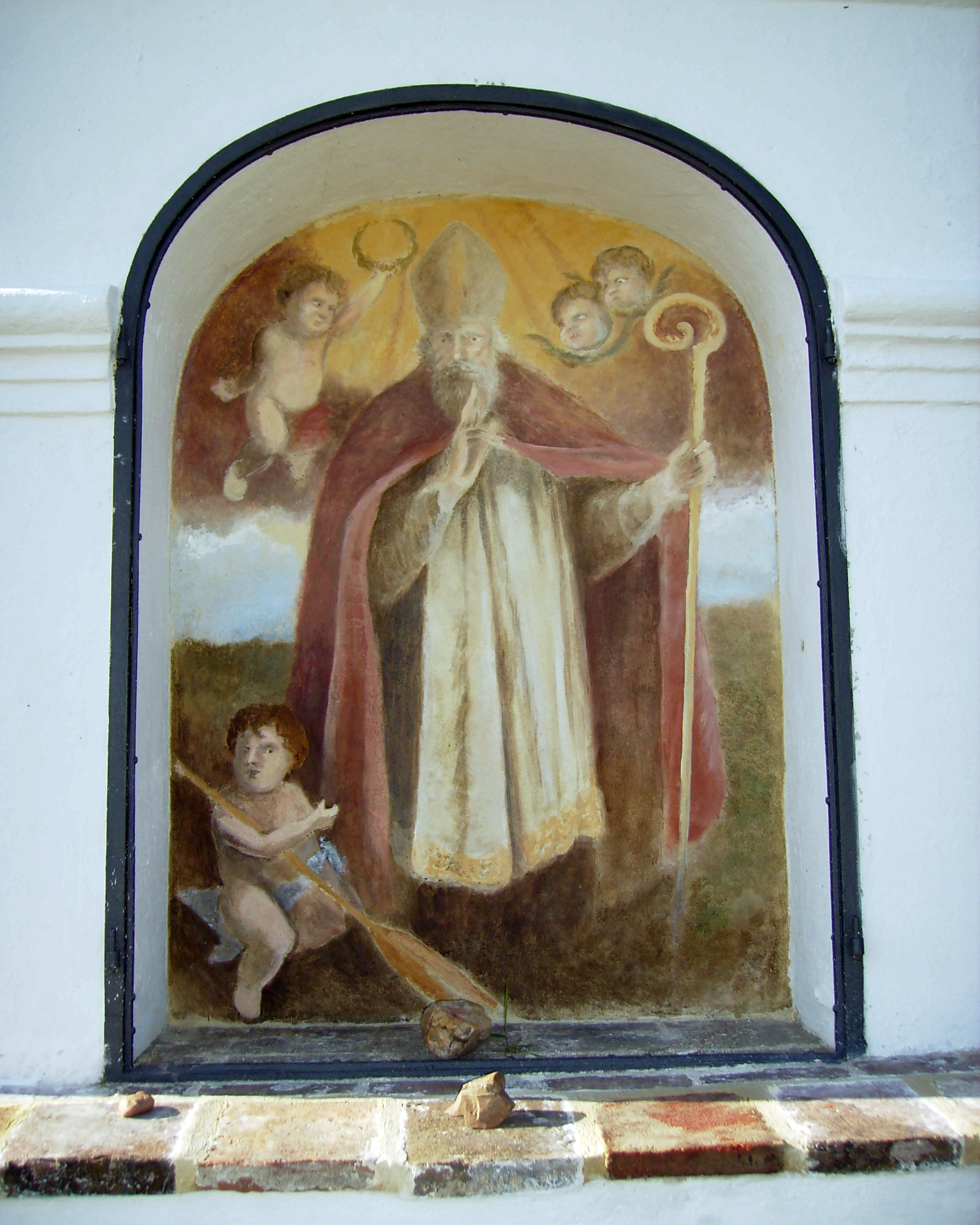 Depiction of St Adalbert of Prague in a chapel in Přerov nad Labem after restoration.